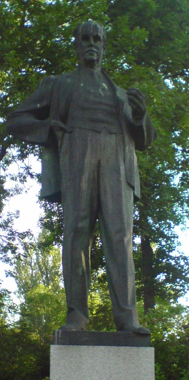 Statue of Antonín Zápotocký in his birthtown Zákolany, Czech Republic. Work by sculptor Viktor Dobrovolný (1909–1987).